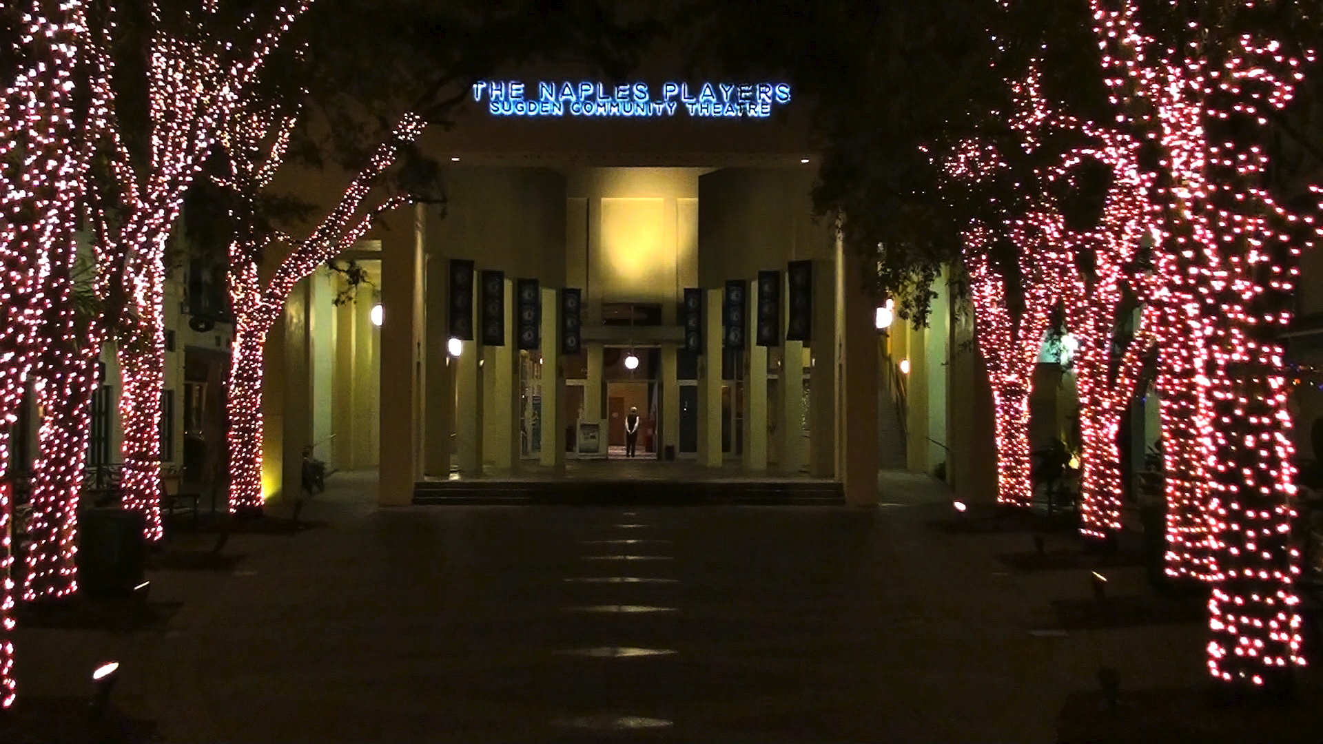 The Sugden Community Theatre, Home of The Naples Players at 701 5th Avenue South in 2010.